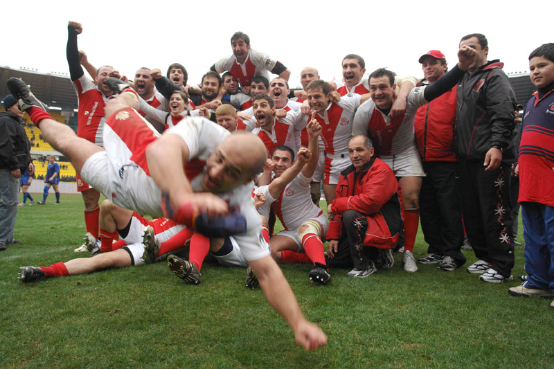 Georgian rugby union players